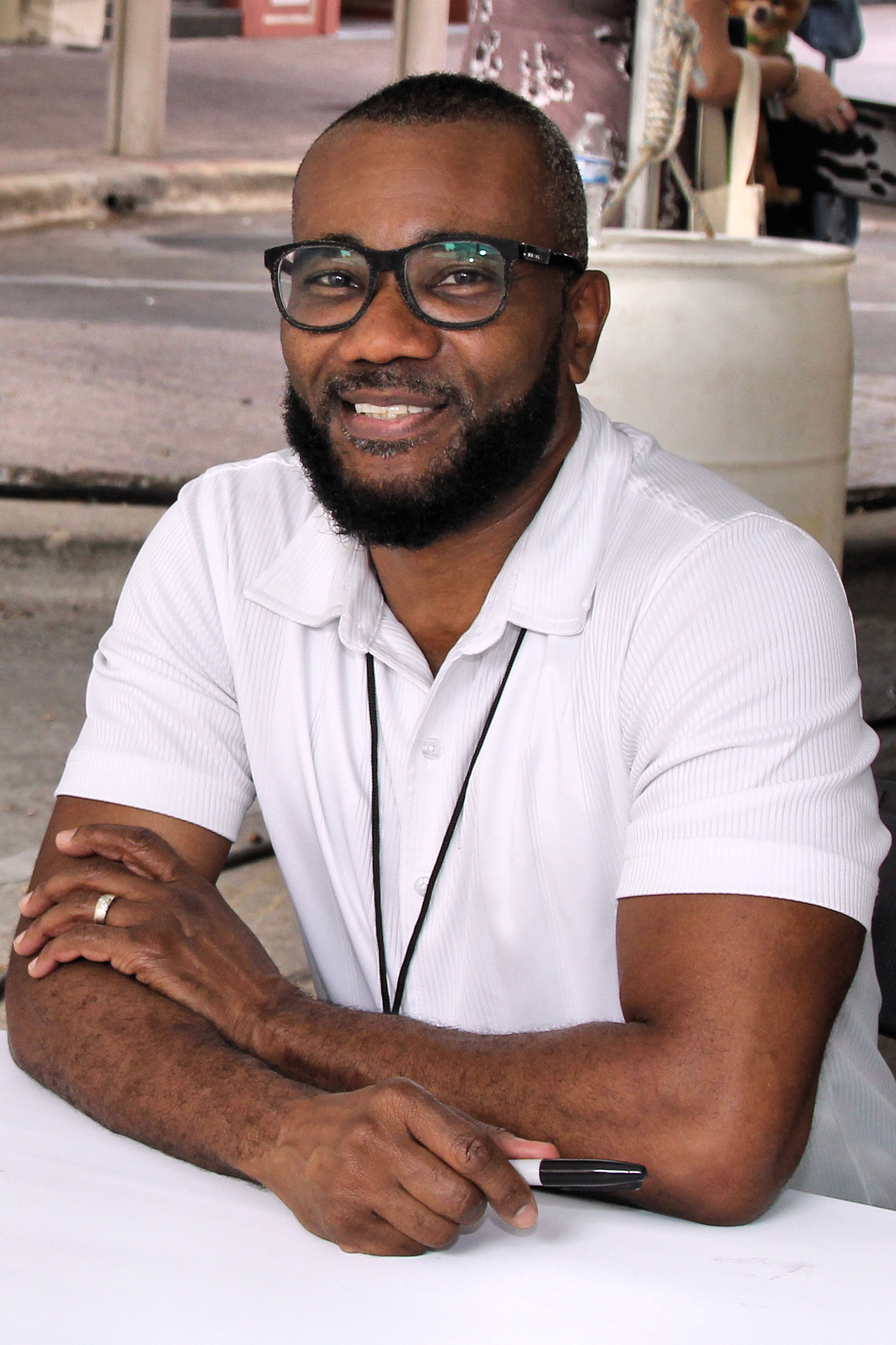 Author Don Tate at the 2017 Texas Book Festival.